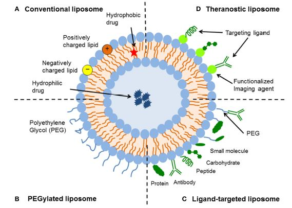 Schematic representation of the different types of liposomal drug delivery systems.